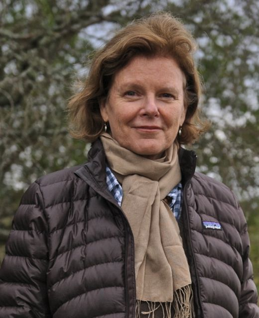 Kris Tompkins, Conservacion Patagonica founder